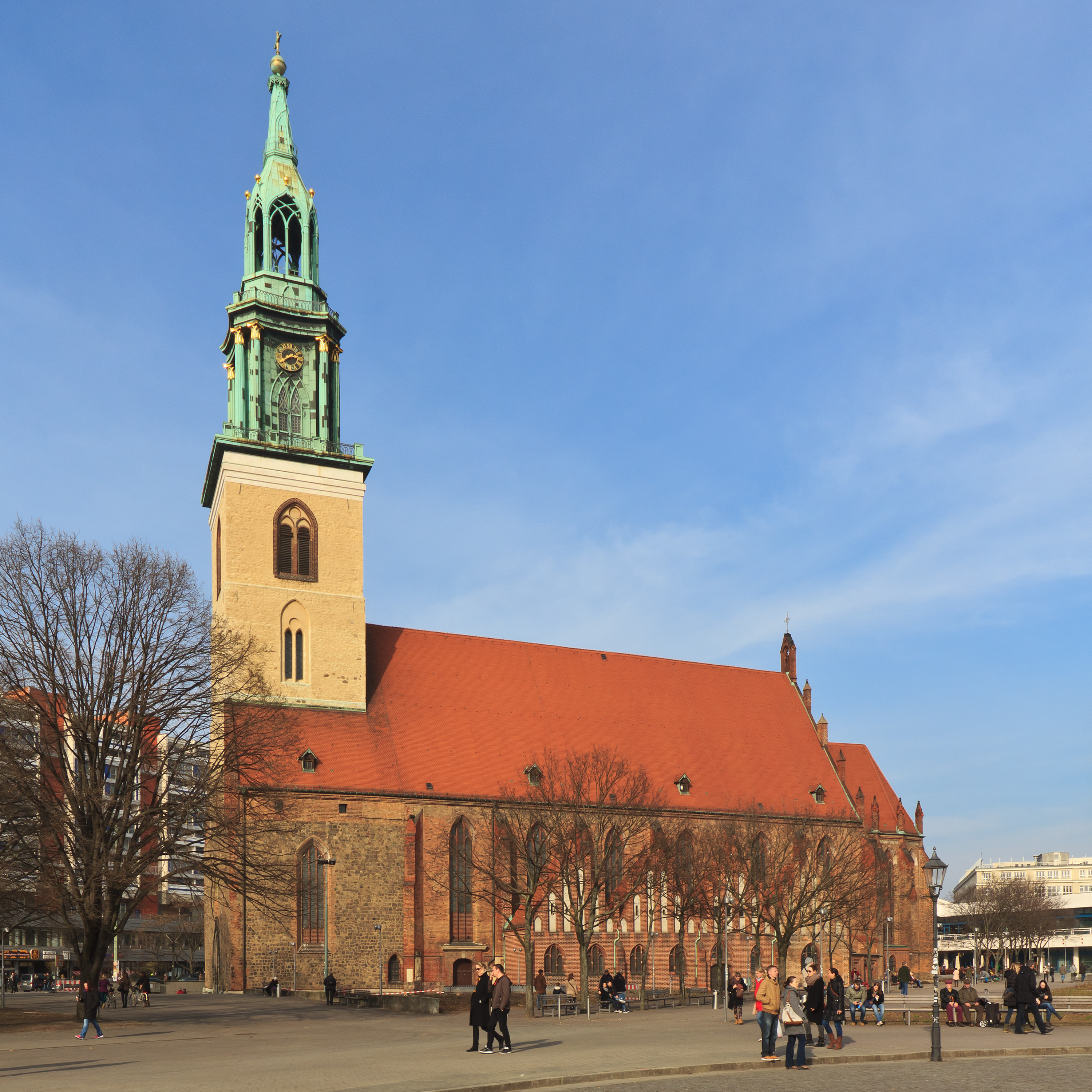 Saint Mary Church in Berlin-Mitte, Germany